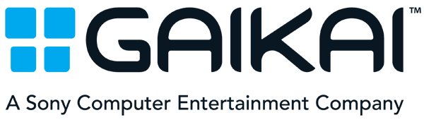 Gaikai logo